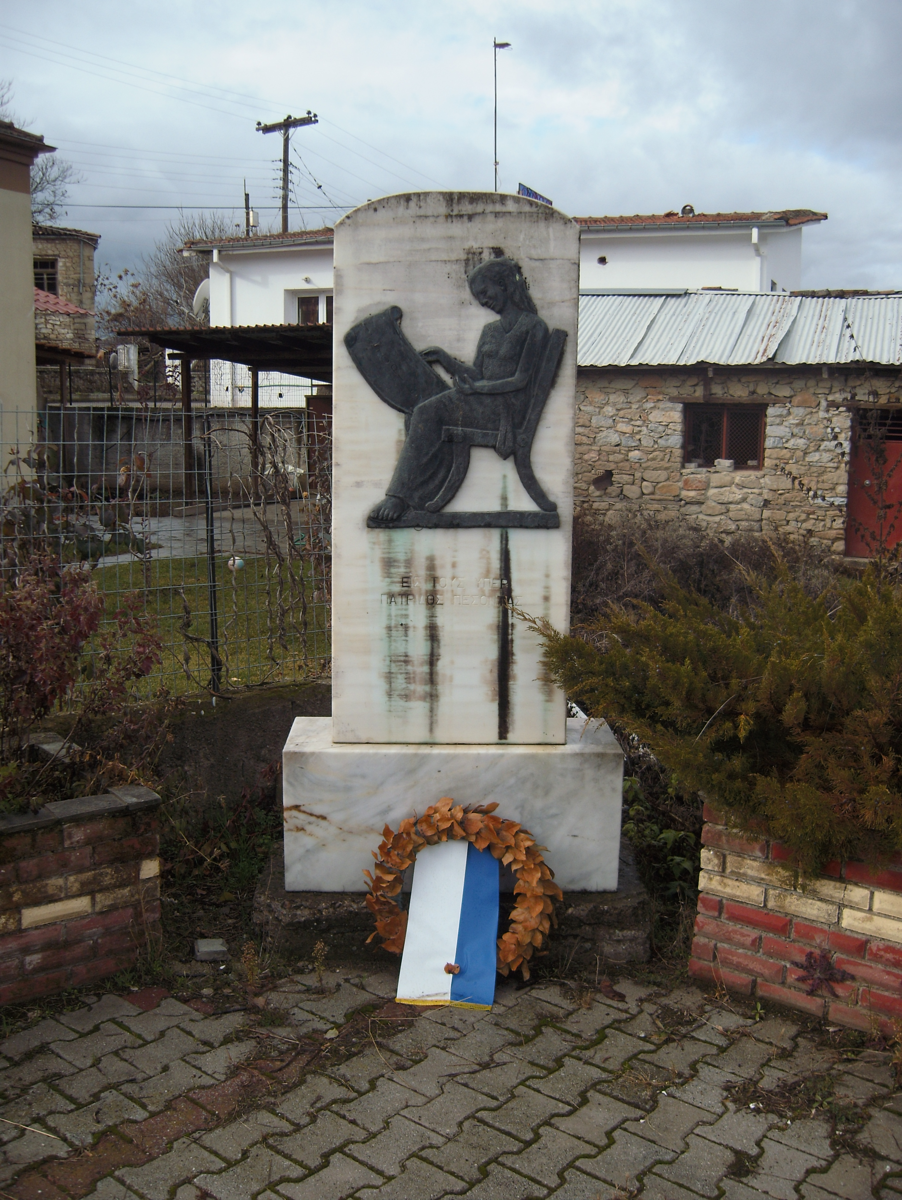 Starichani / Lakomata